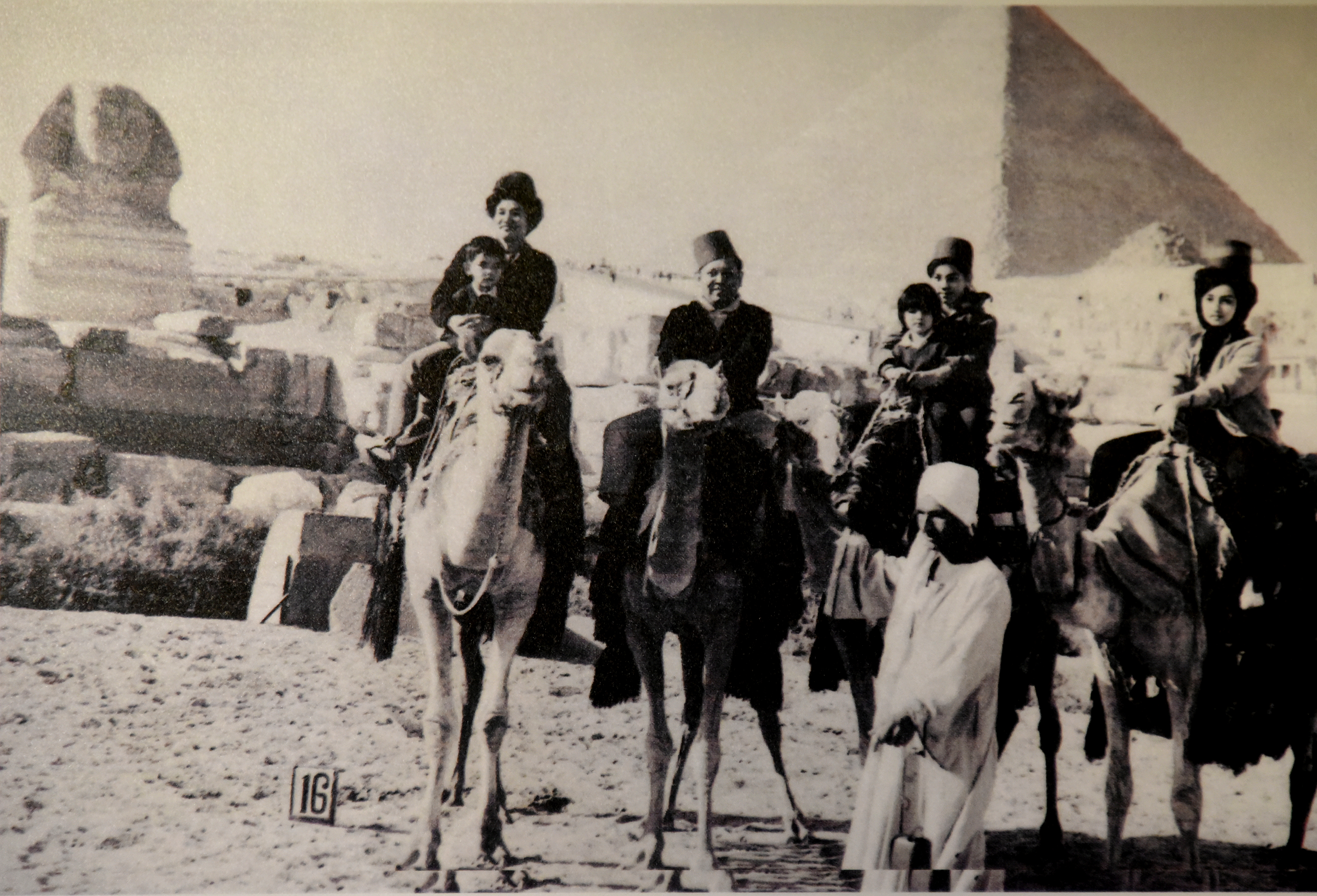 Tuanku Ja'afar with family while in Egypt, the United Arab Republic in 1963, when he served as ambassador to Cairo, Egypt. Unknown photographer. The original image is © the Tuanku Ja'afar Royal Gallery, Seremban, Negeri Sembilan, Malaysia.